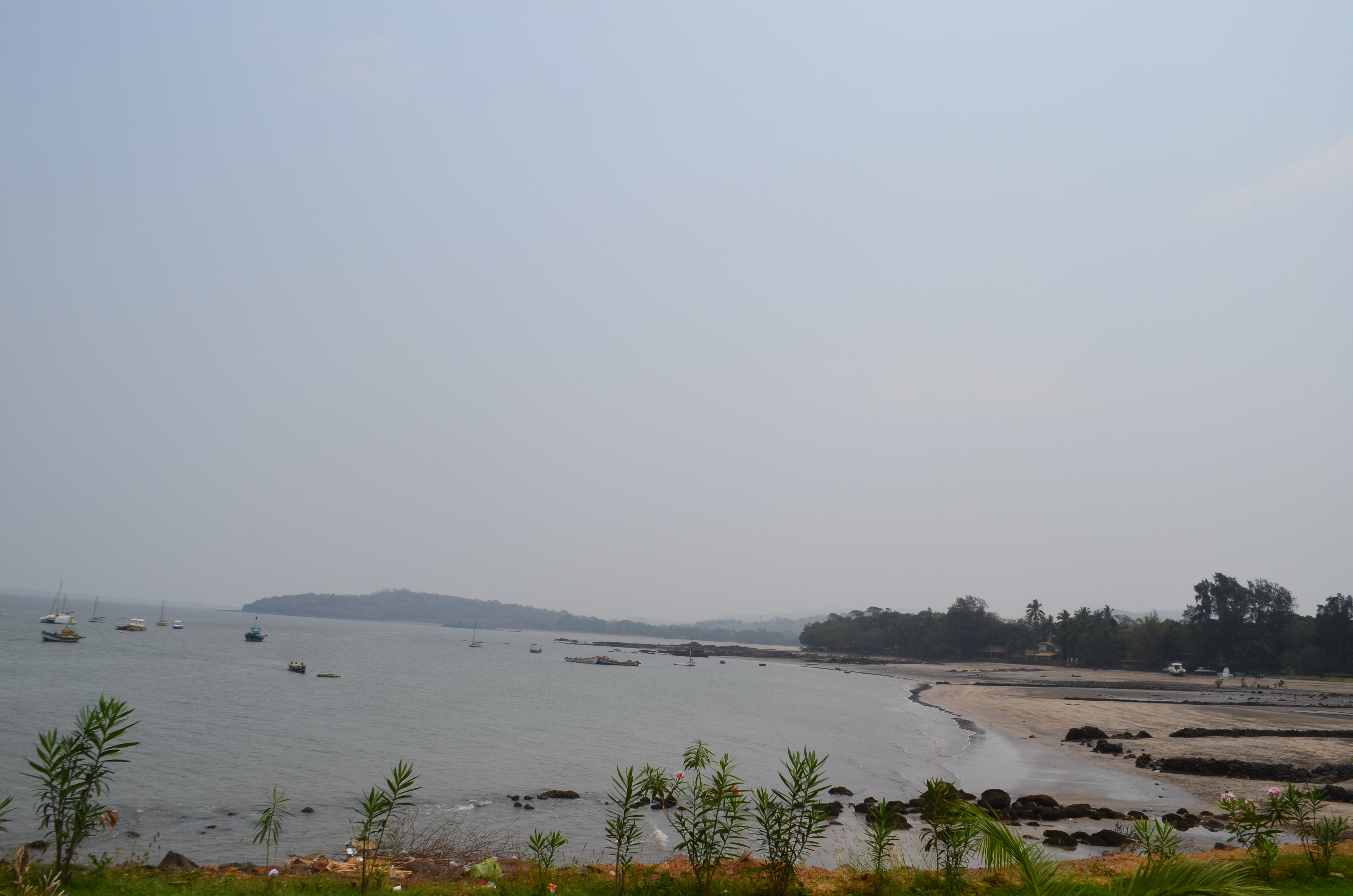 Mandwa Beach as seen from Mandwa Port in March 2015